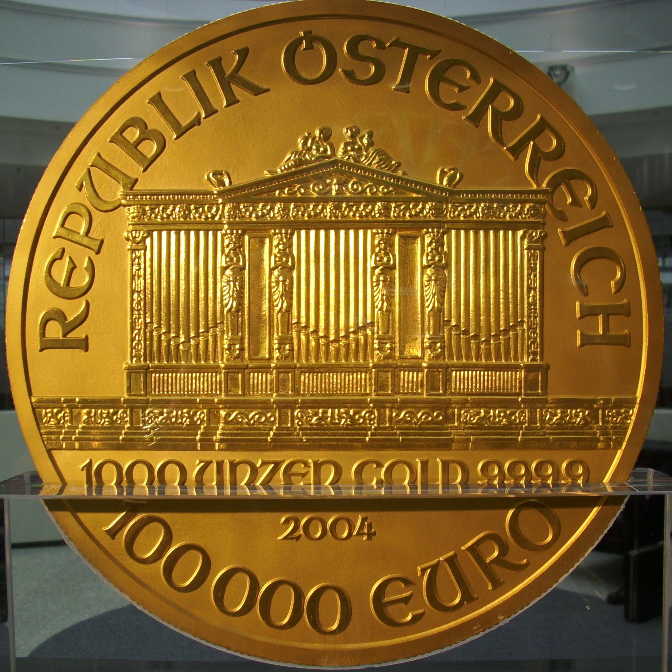 Greatest goldcoin of Europe